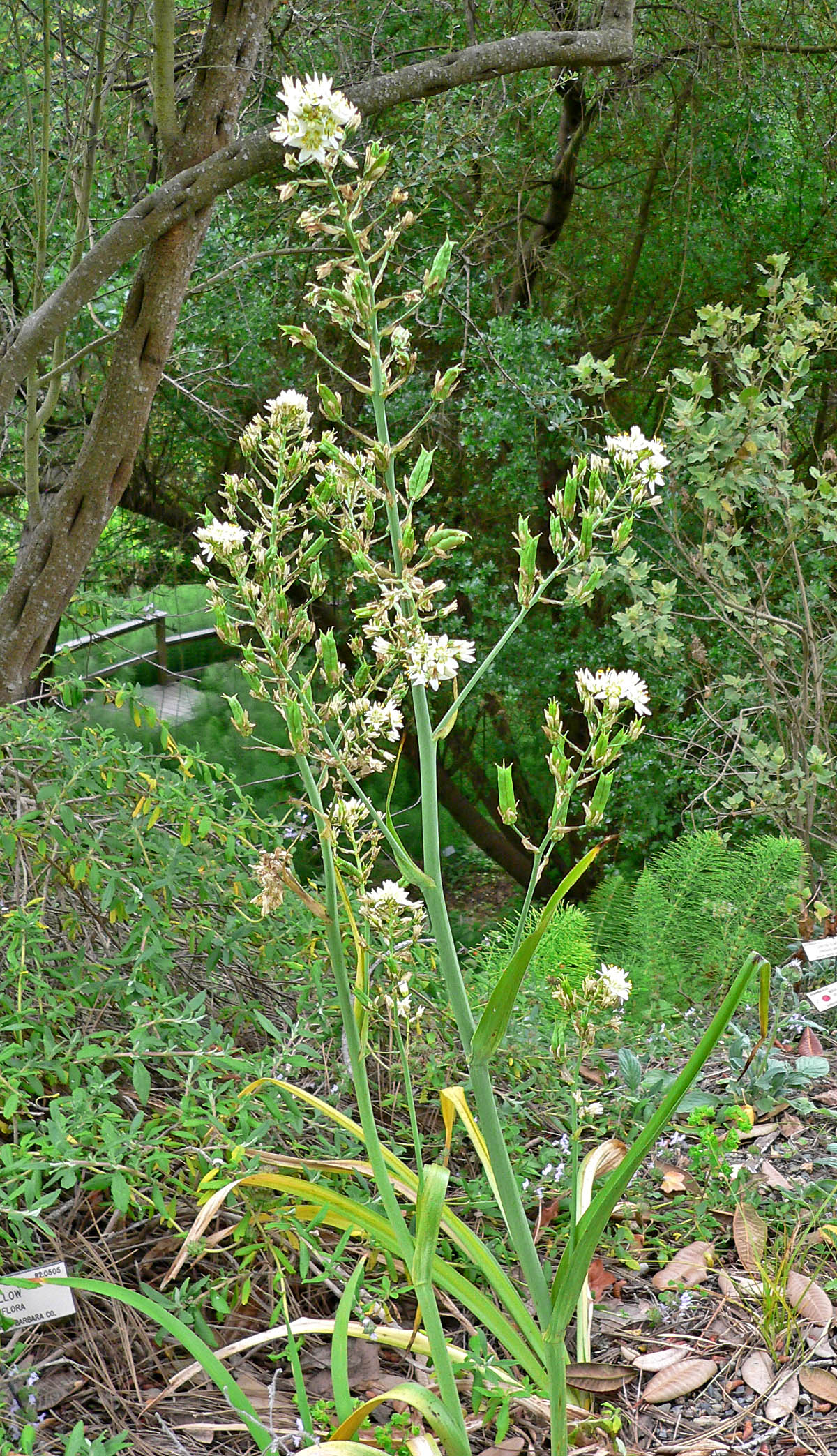 Photo of Zigadenus fremontii var. inezianus at the University of California Botanical Garden